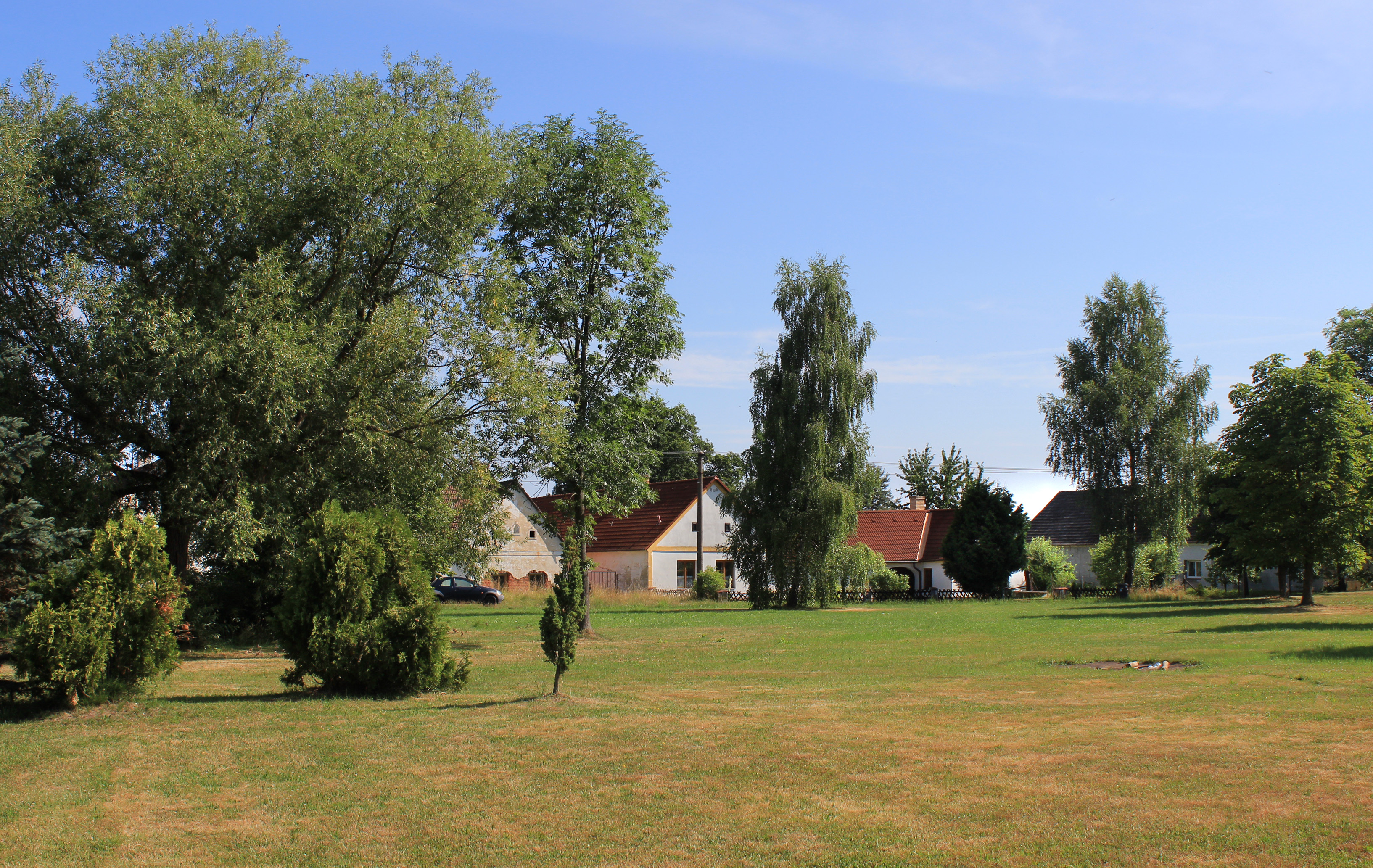 West part of Cep village, Czech Republic.